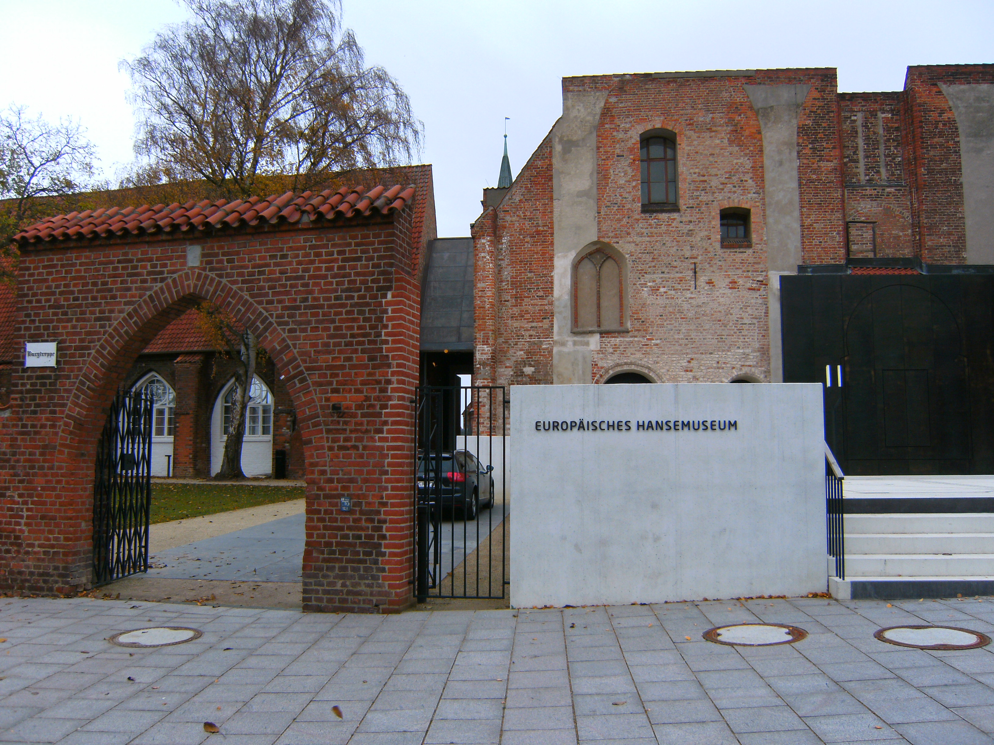 Lübeck, Germany: European Hansemuseum (Europäisches Hansemuseum). Entrance from the street Hinter der Burg.